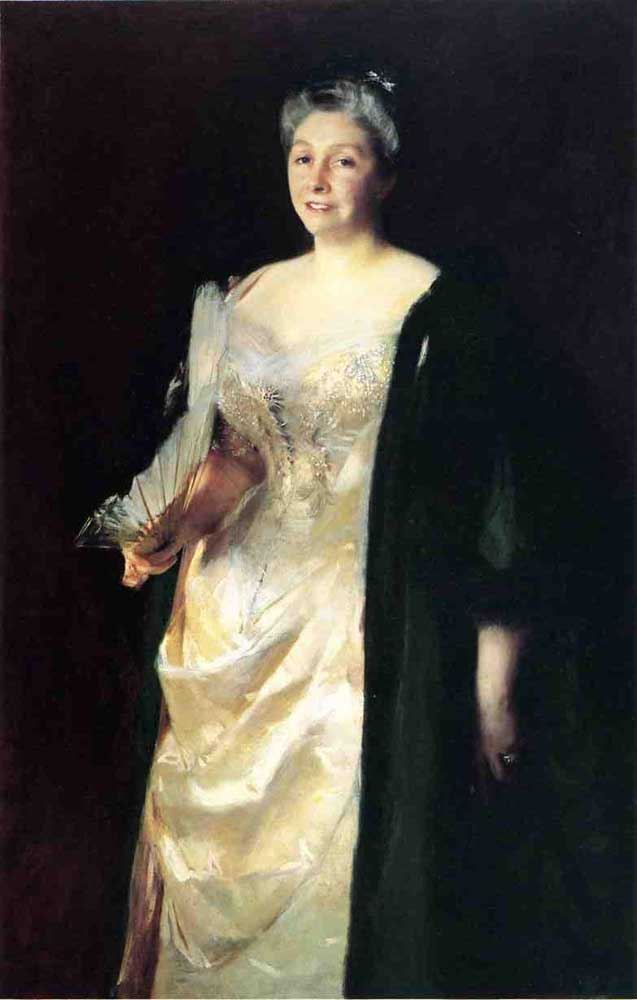 Mrs. William Playfair (nee Emily Kitson, 1841-1916) John Singer Sargent -- American painter 1887 Huntington Library, Art Collections and Botanical Gardens, San Marino, CA Oil on canvas 59 x 38 in. Jpg: Traditional Fine Art Online Jpg: Webshots